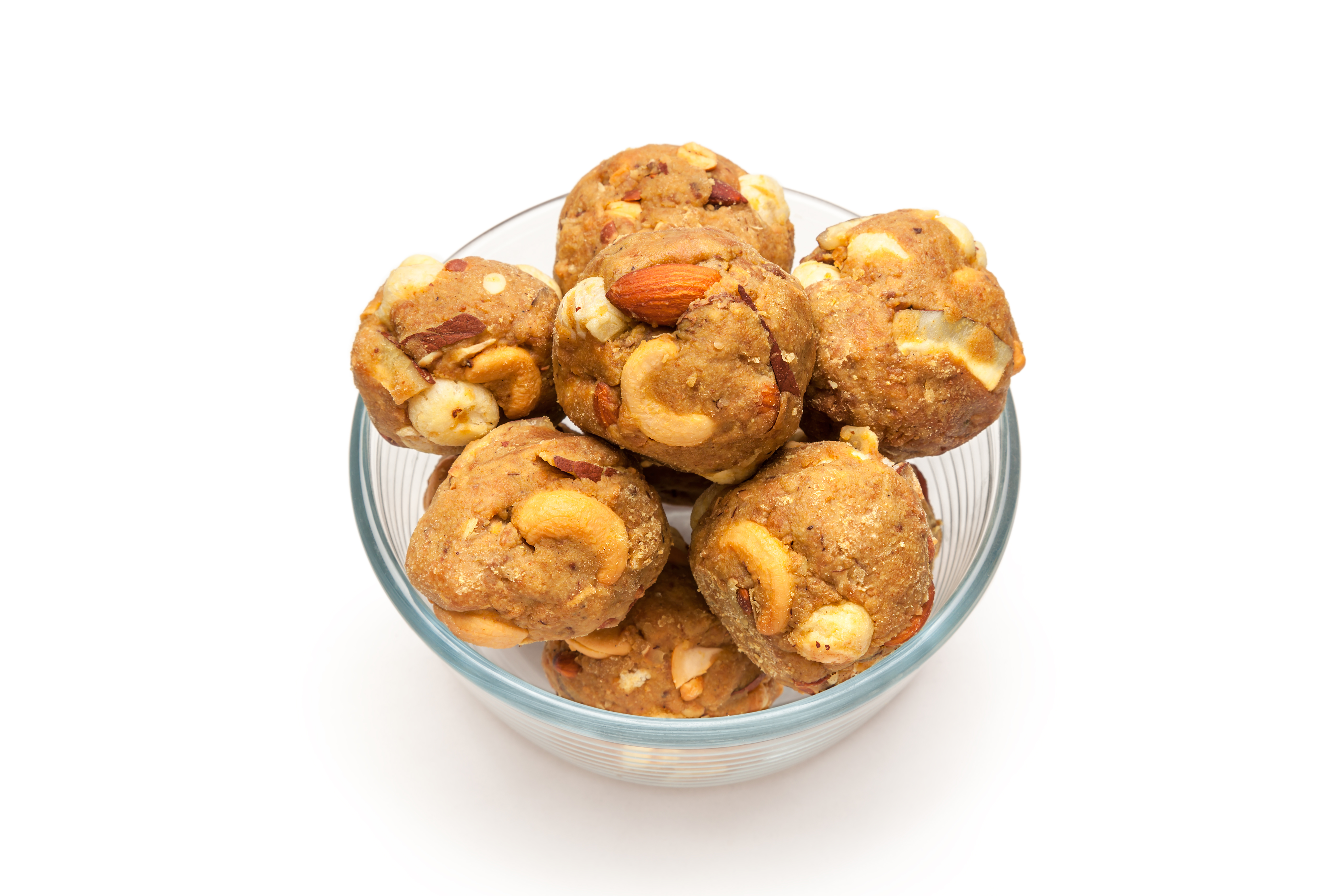 A bowl of Flour Sweet (Laddoo). Garnished with Almond and Pistachio